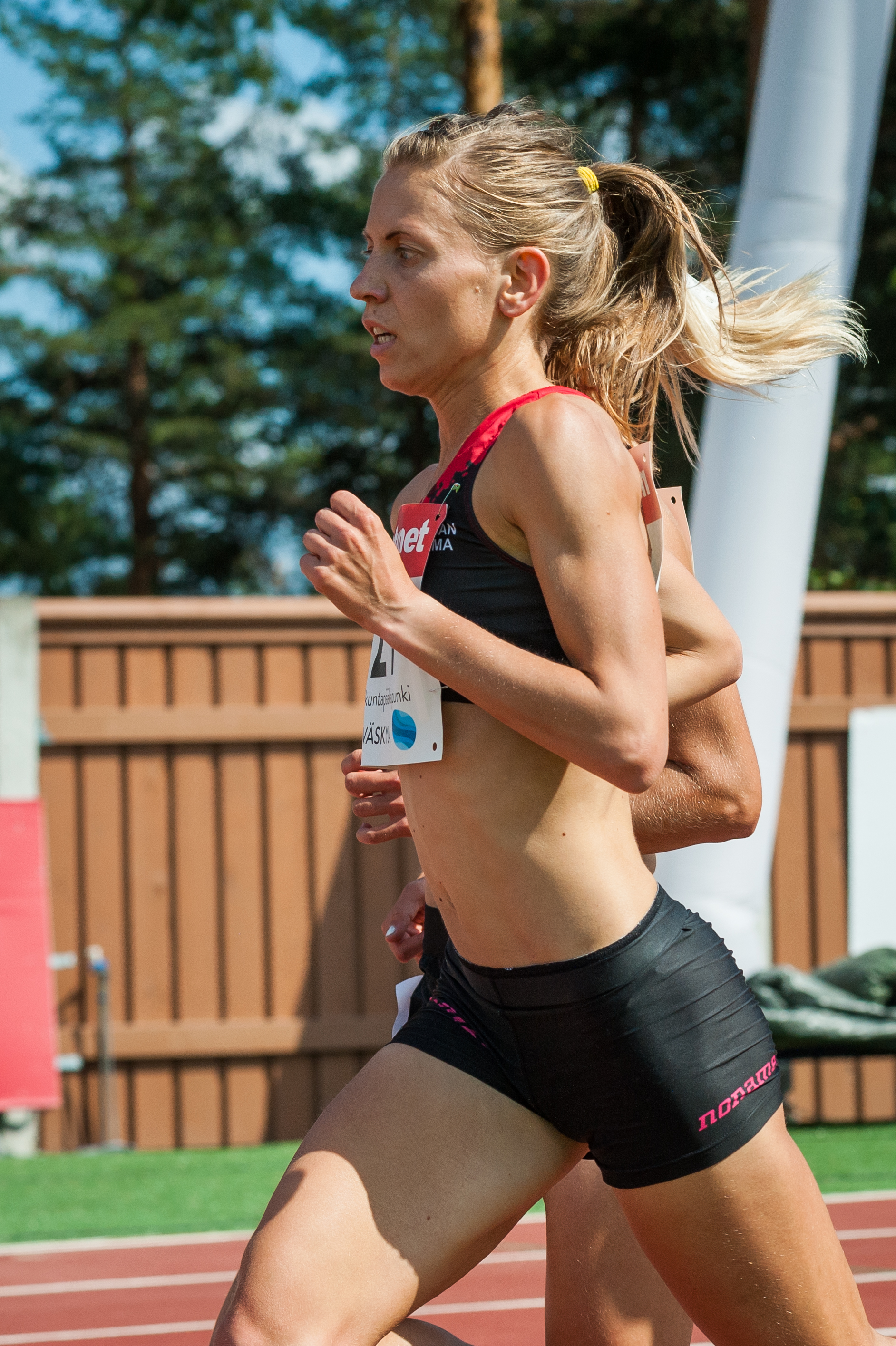 Women's 5000 m competition at the 2018 Kalevan Kisat, the Finnish championships in athletics, in Jyväskylä, Finland.